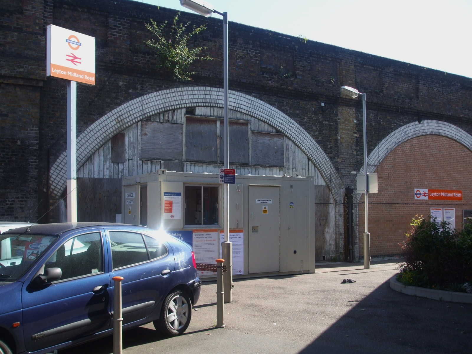 Leyton Midland Road station temporary portakabin ticket office. The stairs up to the platforms at right, out of shot.